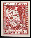 Postage stamp by painter Rihards Zariņš for Asobny Atrad of Bulak-Balakhovich, Latvia, 1920, 10 kopecks